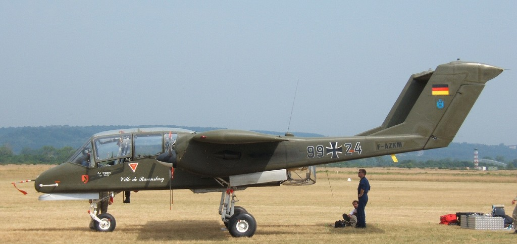 Rockwell OV-10 Bronco